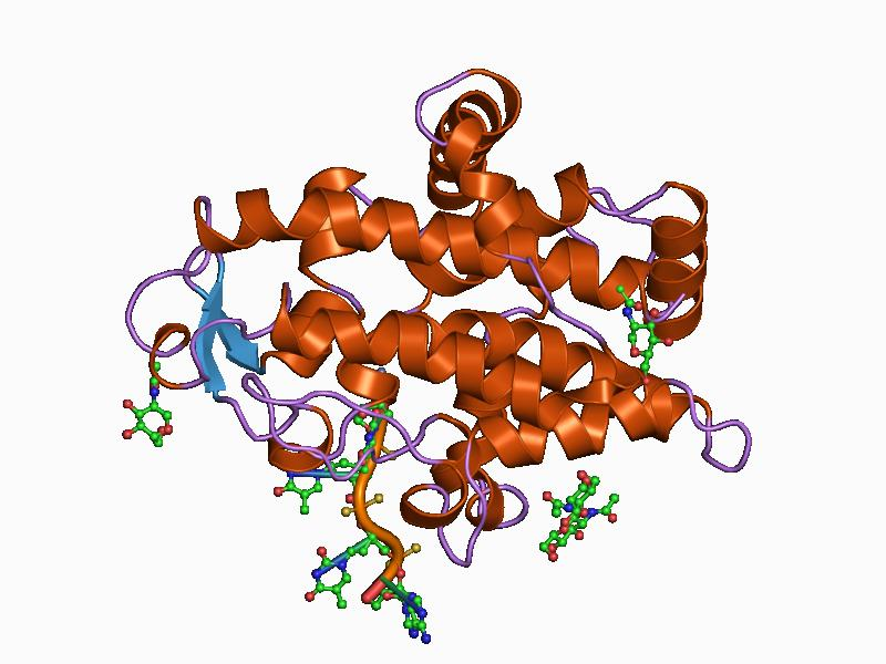 Cartoon representation of the molecular structure of protein registered with 1ak0 code.